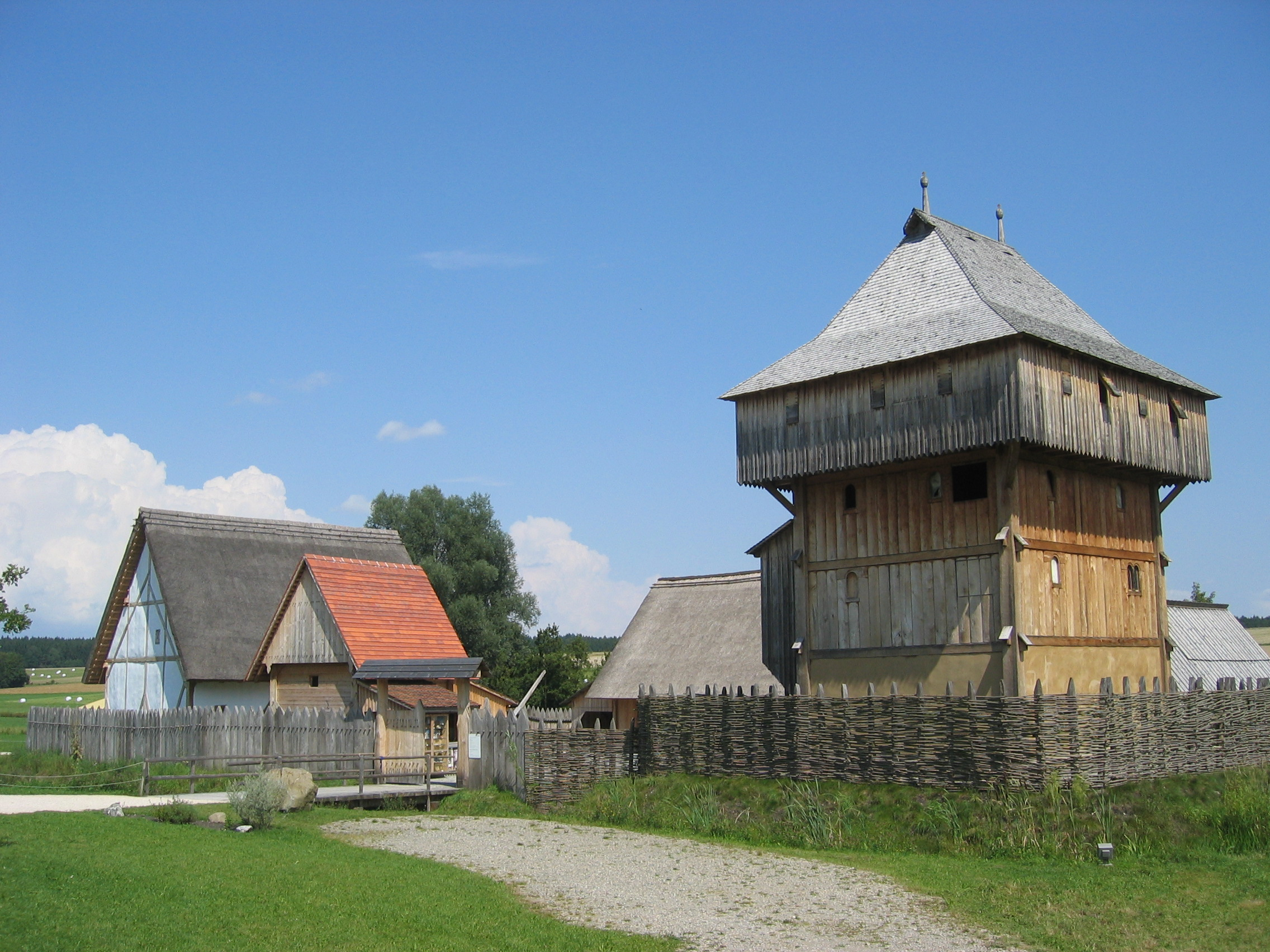 Bachritterburg (reconstruction of a medieval castle), Kanzach, Baden-Württemberg, Germany